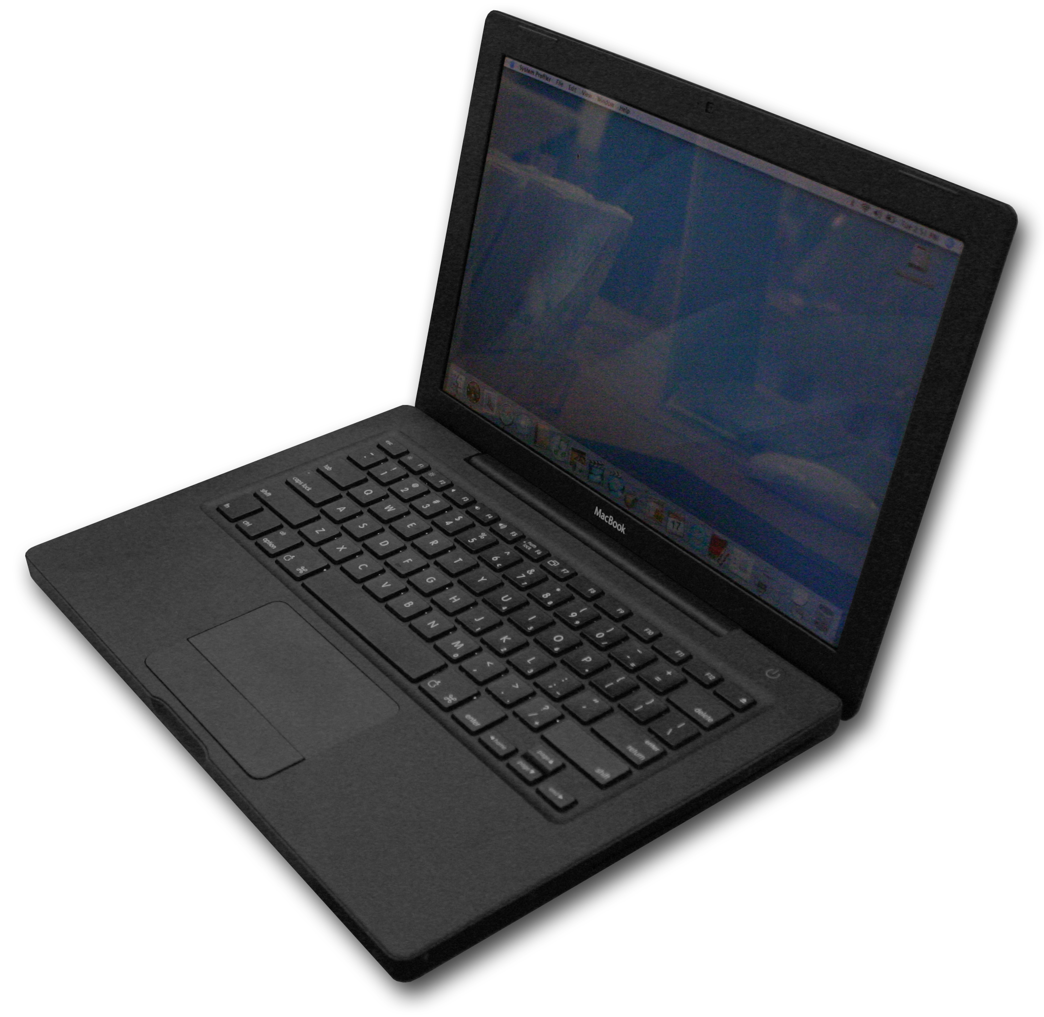 A black Apple MacBook, photographed on the product's introduction day in an Apple Store in Chestnut Hill, MA.